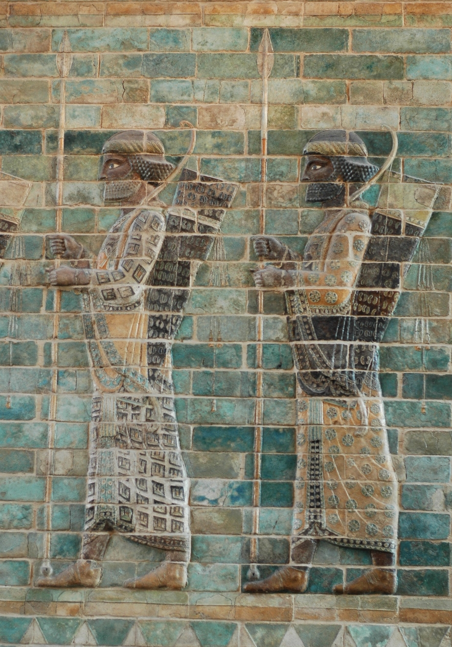 Lancers, detail from the archers' frieze in Darius' palace in Susa. Glazed siliceous bricks, c. 510 BC.